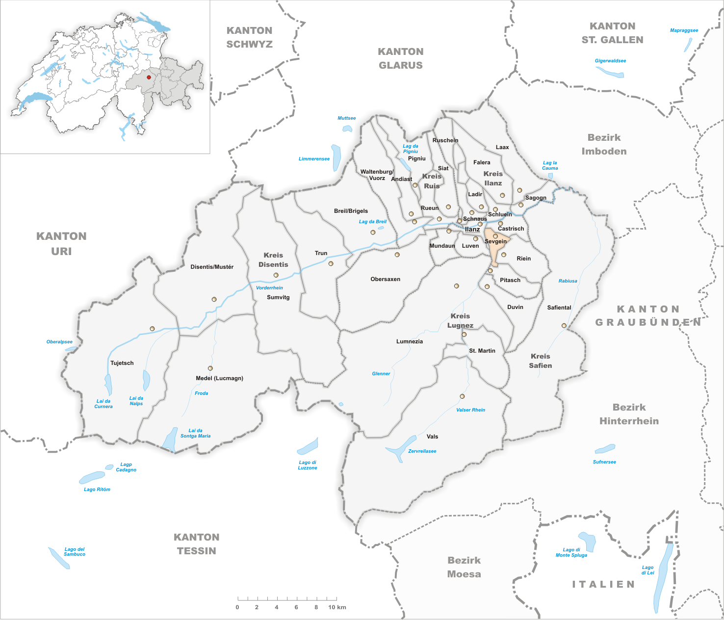 Municipality Sevgein